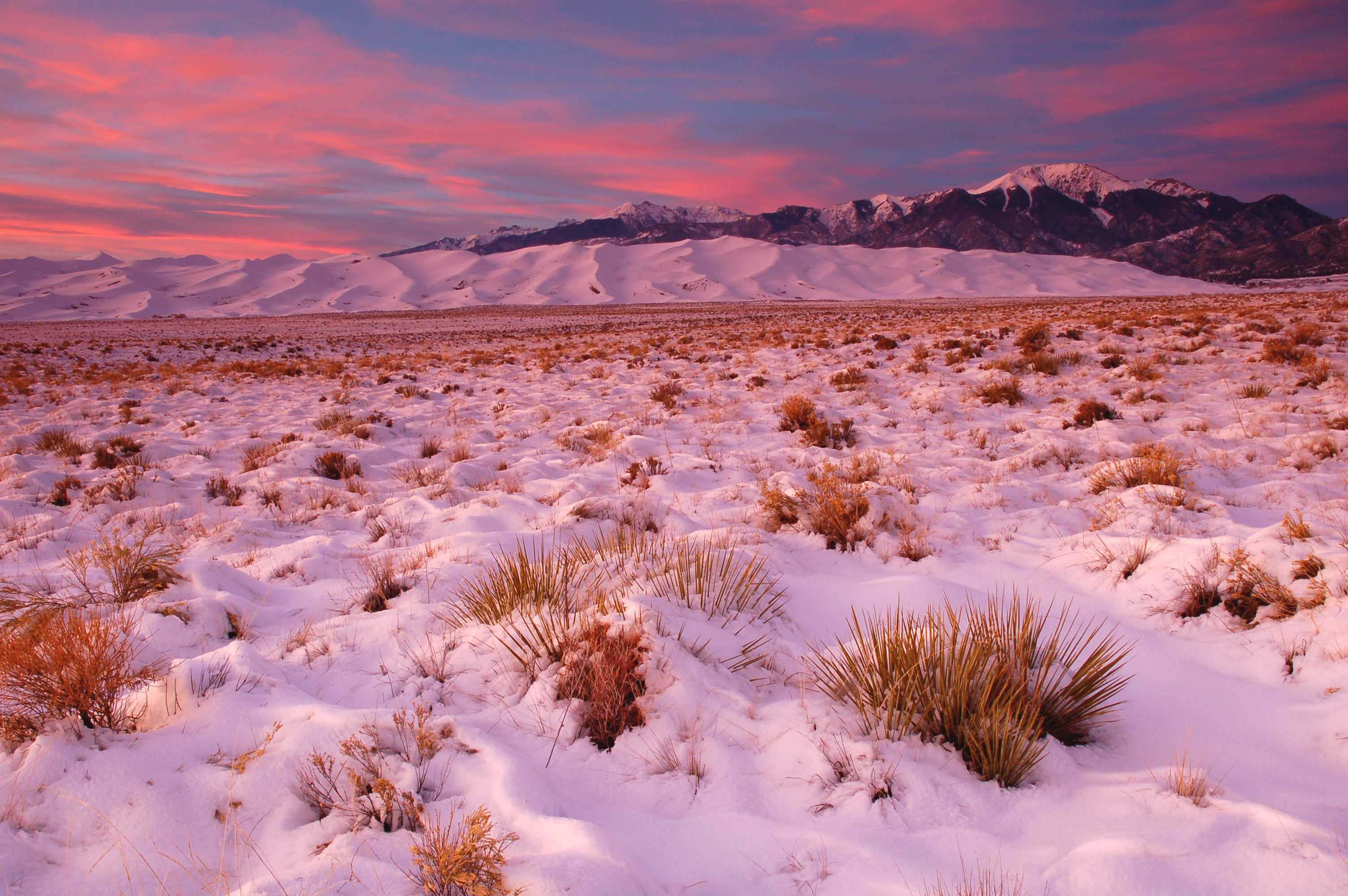 First snow of the season in Great Sand Dunes National Park. NPS/Debra Miller